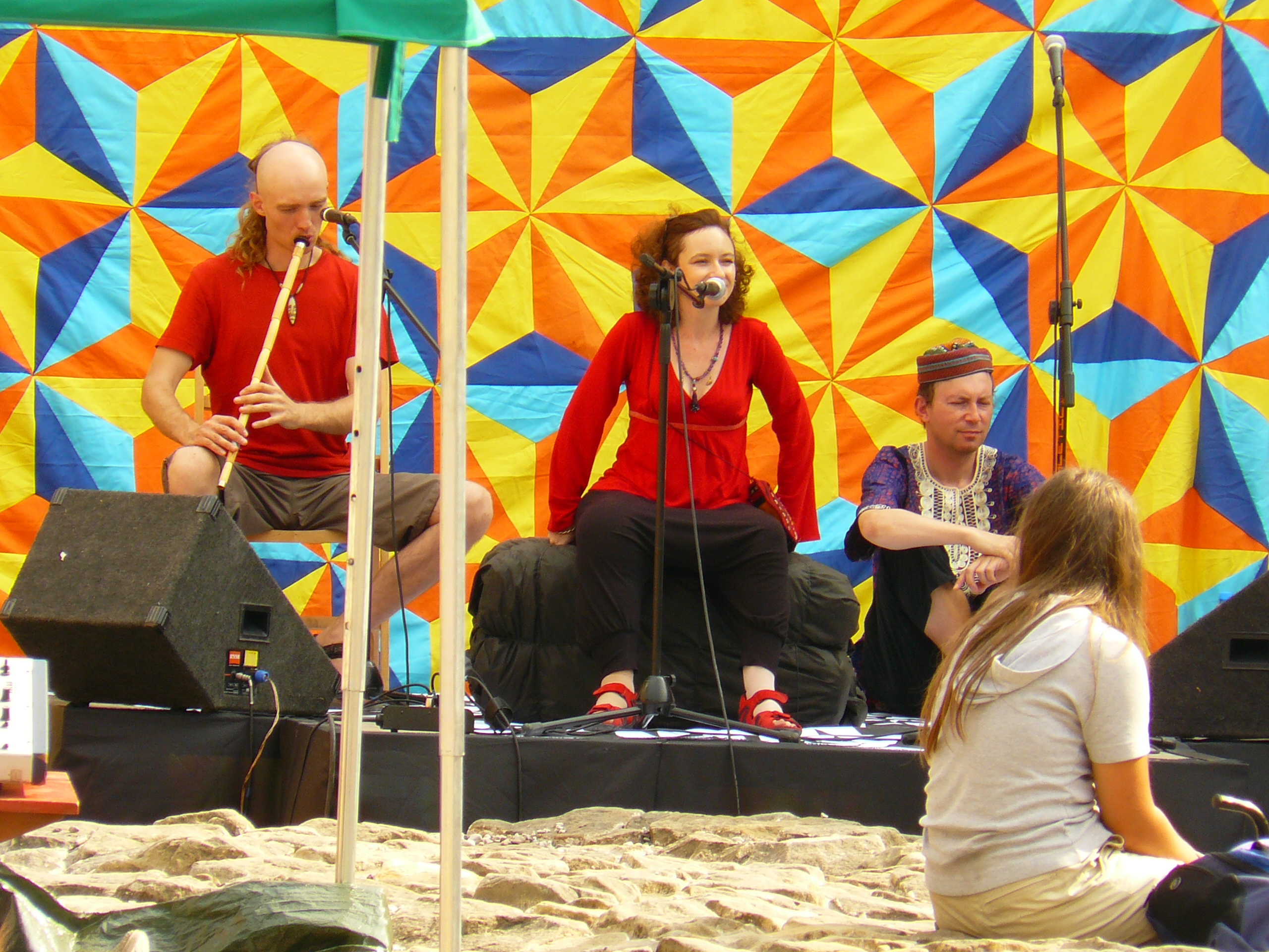 Festival of Narrators, People who tell legends and fairy tales.